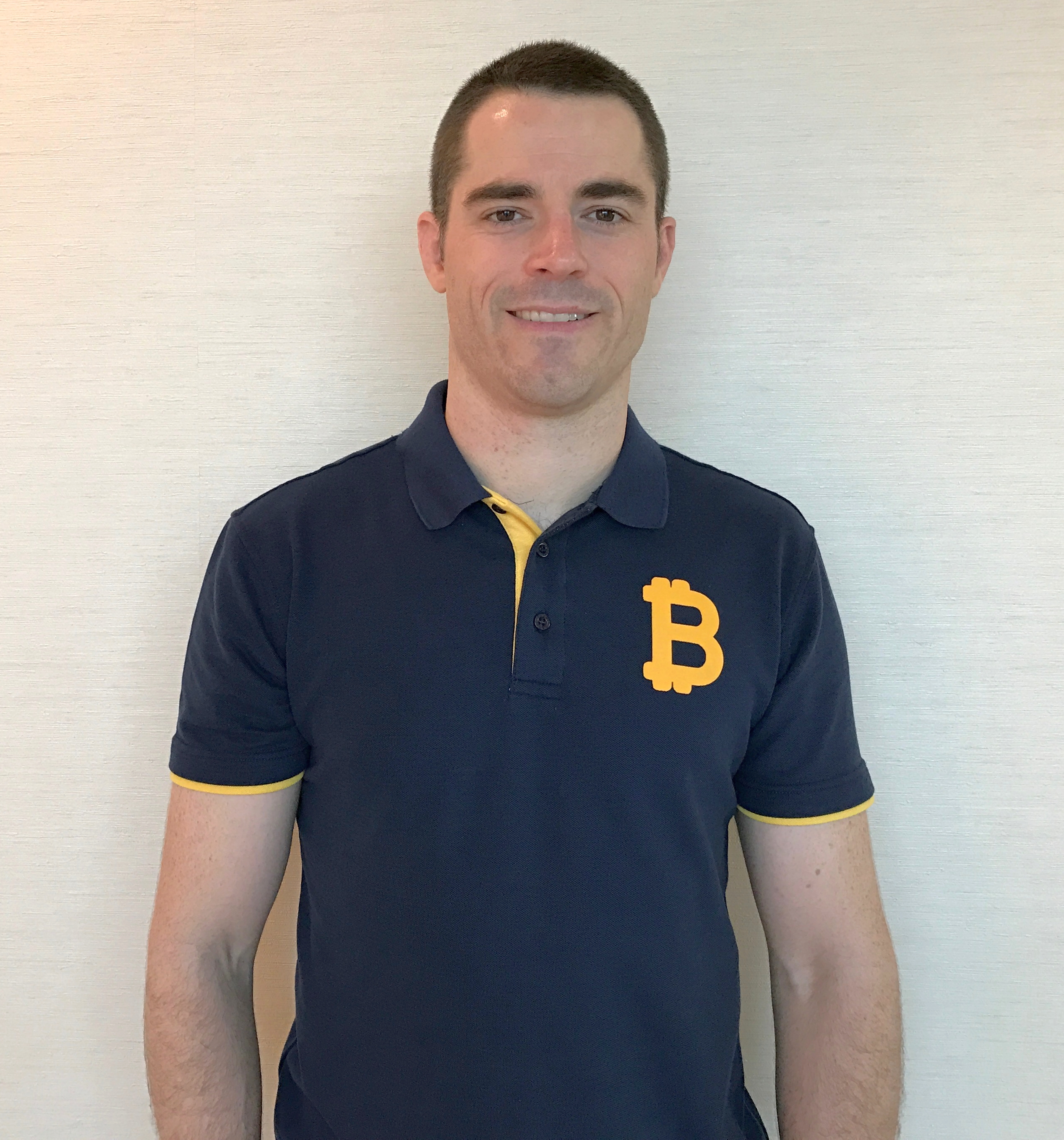 Photo of Roger Ver.